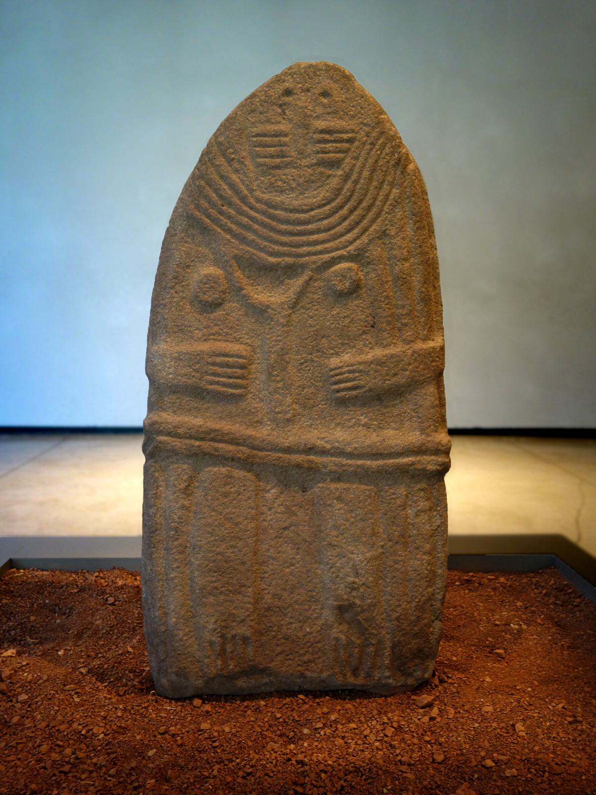 The famous statue-menhir dubbed "The Lady of Saint-Sernin ", a masterpiece of the Neolithic art revealed in 1888 in Saint-Sernin-sur-Rance (Aveyron-France) and now exhibited in the musée Fenaille of Rodez.